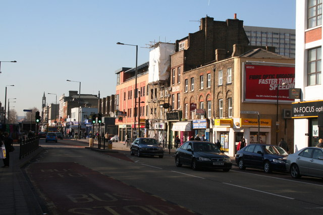 Bethnal Green Road A general view of the north side of this busy road, looking west from opposite the end of Ellsworth Street.